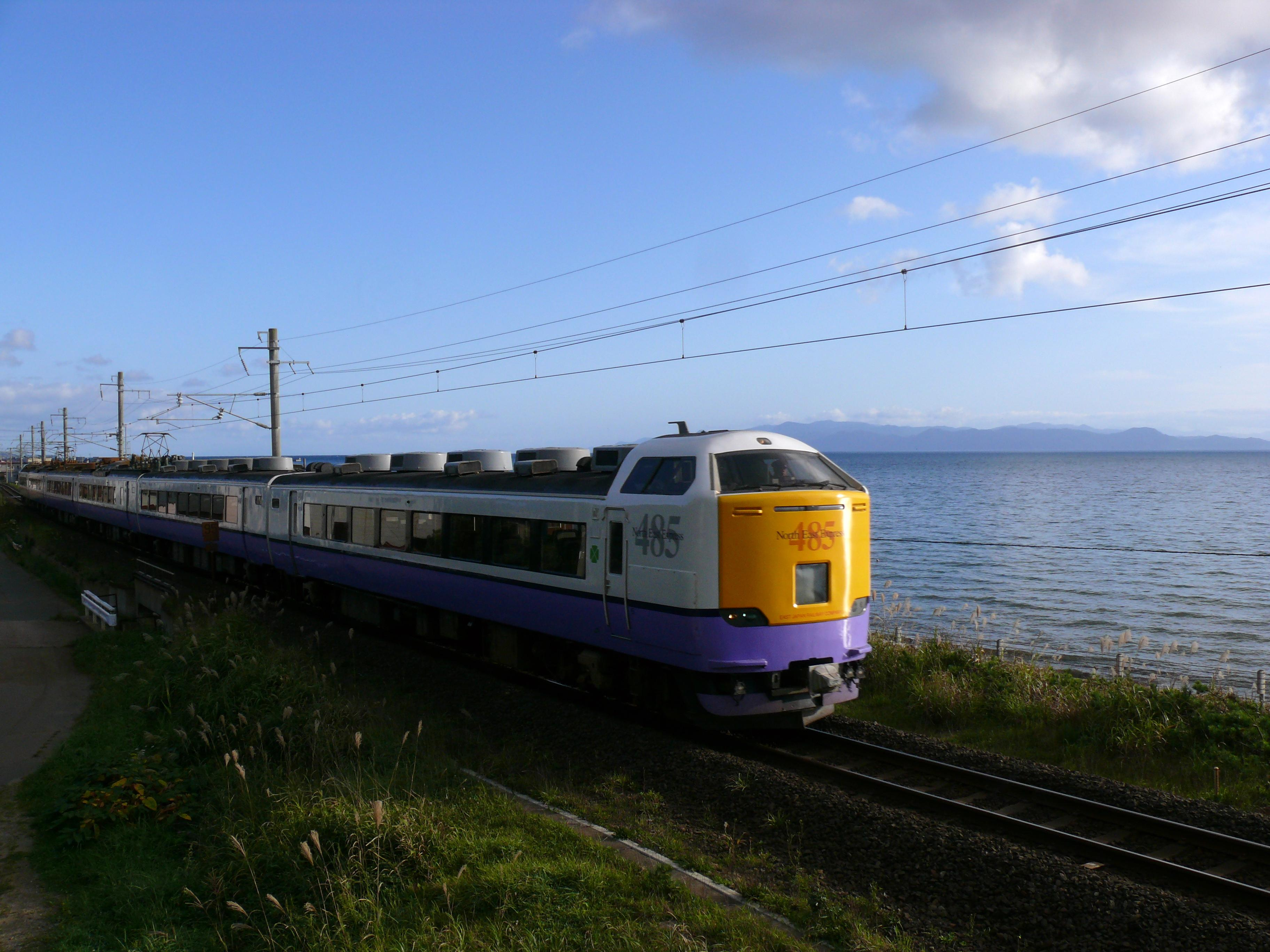 JR East Tsugaru lineRunning local Train. Aomori,Japan.